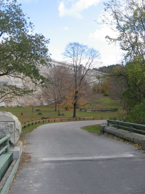 The start of the old aqueduct trail at the base of New Croton Dam